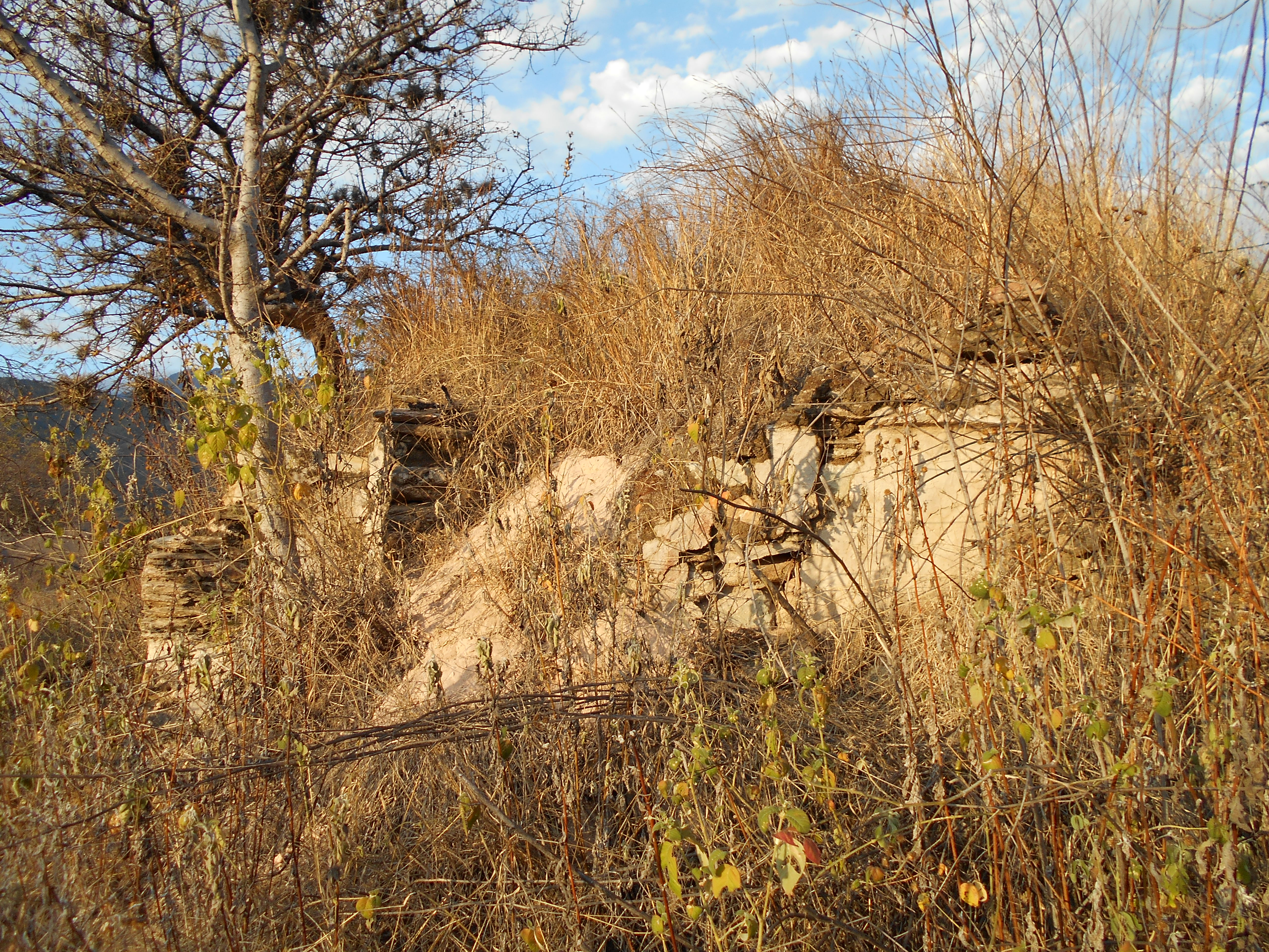 Postclassic Maya ruin of Chutixtiox, near Los Trapichitos, Sacapulas, El Quiché, Guatemala.